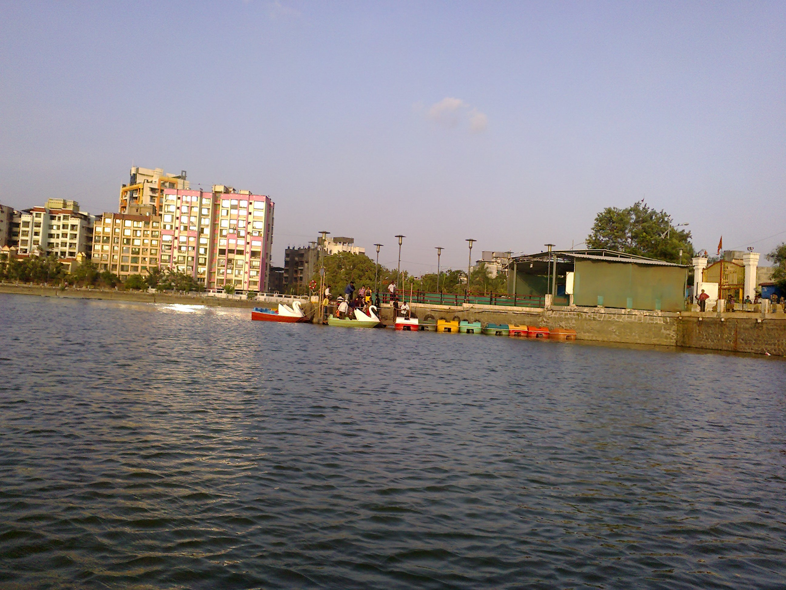 Kala Talao is a historic lake. A palce of interest in Kalyan (in Indian state of Maharashtra), India.